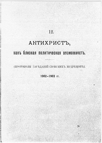 Title page of Chapter 12 of The Protocols of the Elders of Zion